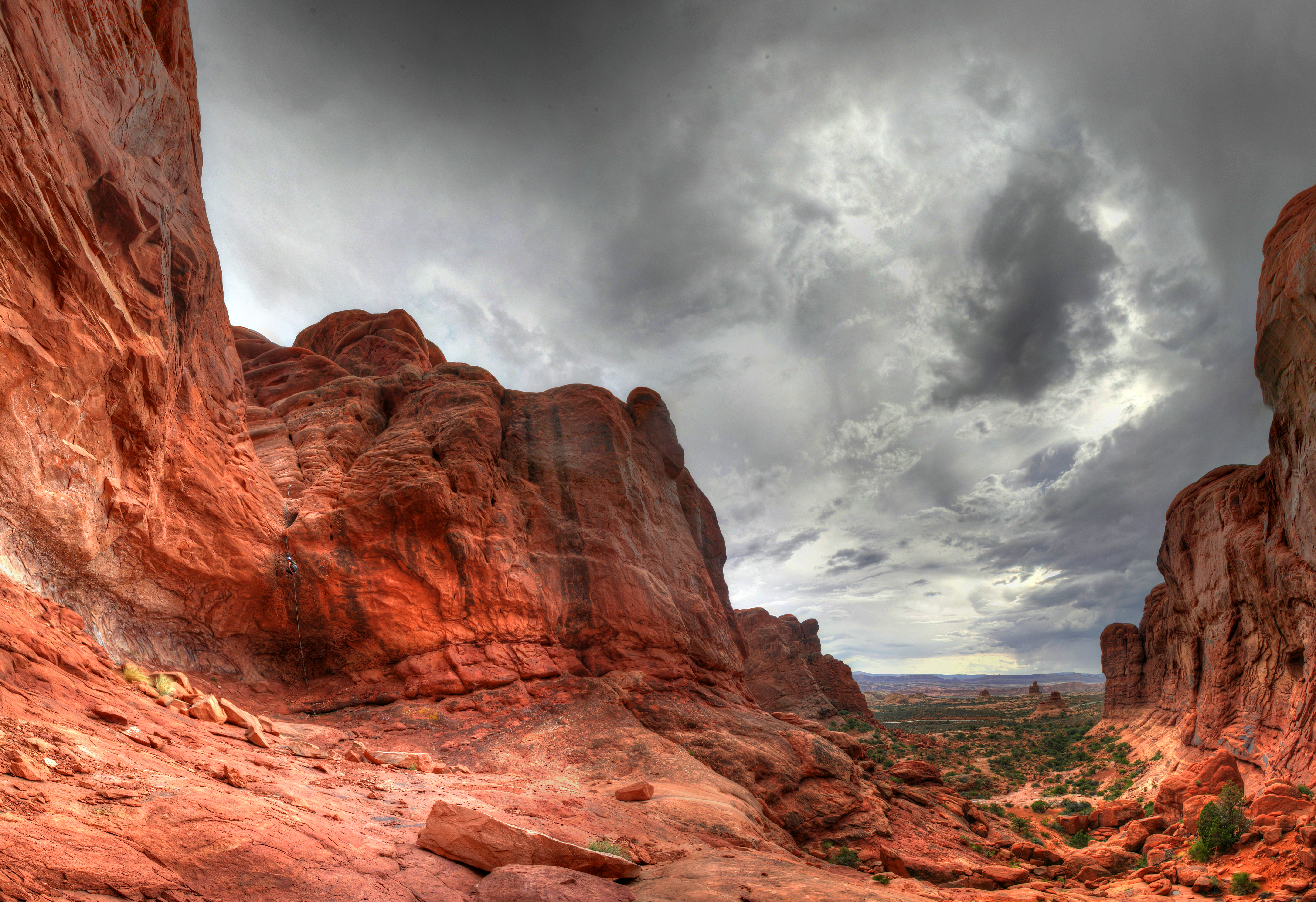 Elephant Butte is a popular canyoneering route in Arches National Park